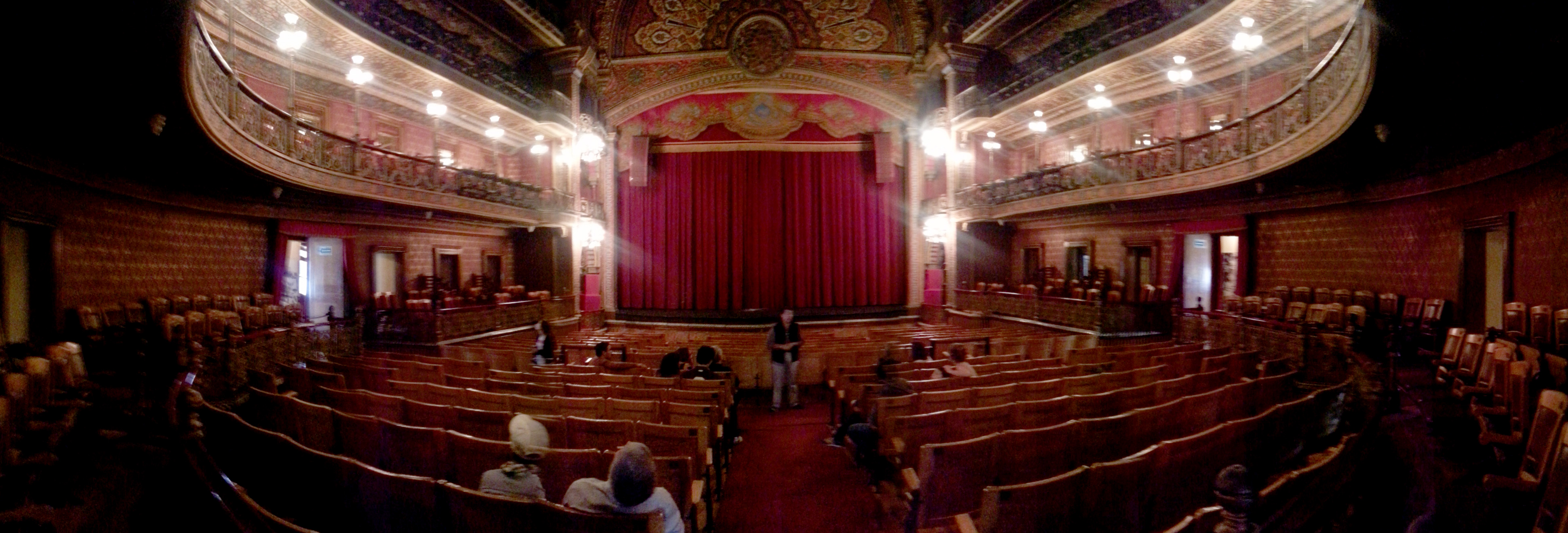 This is a panoramic view of the Teatro Juárez interior, in Guanajuato, Gto, México. Is a